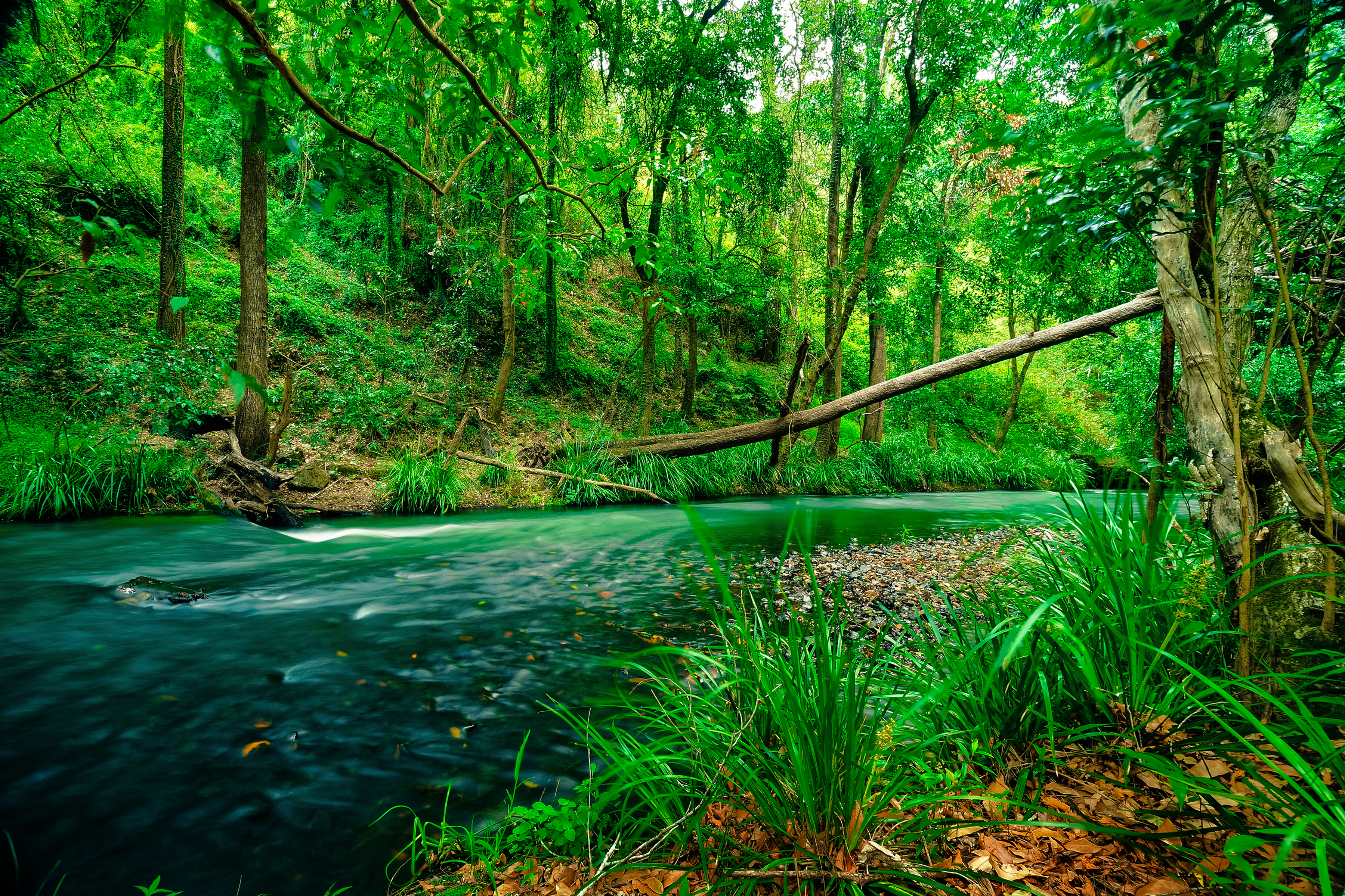 With water released from the nearby Borumba Dam, the water in the Yabba Creek (at Bella Creek near Imbil) is COLD even on the hottest day.